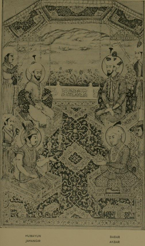 The tomb of Timur